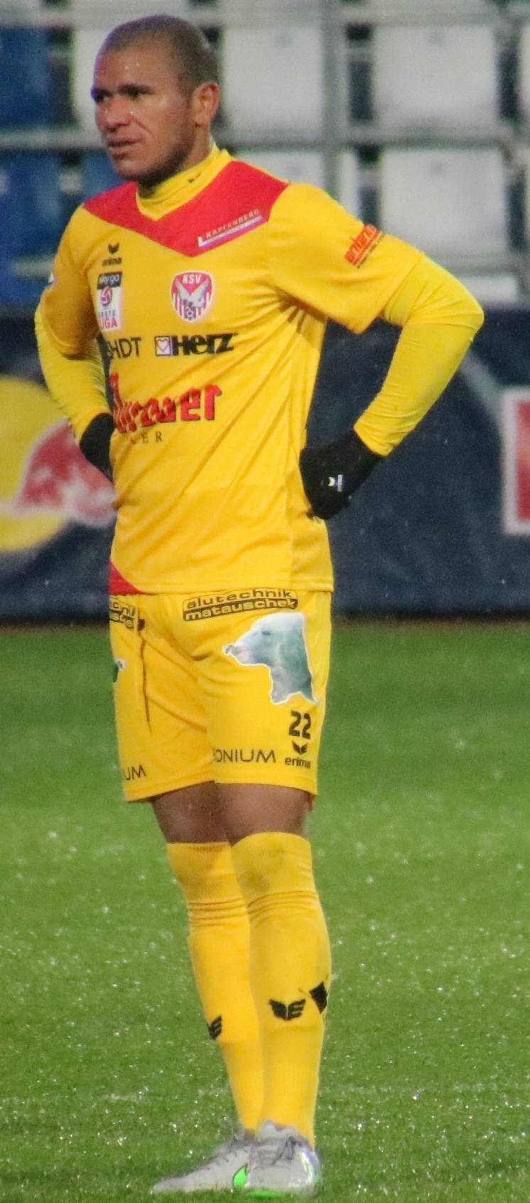 league match Austria 2nd league